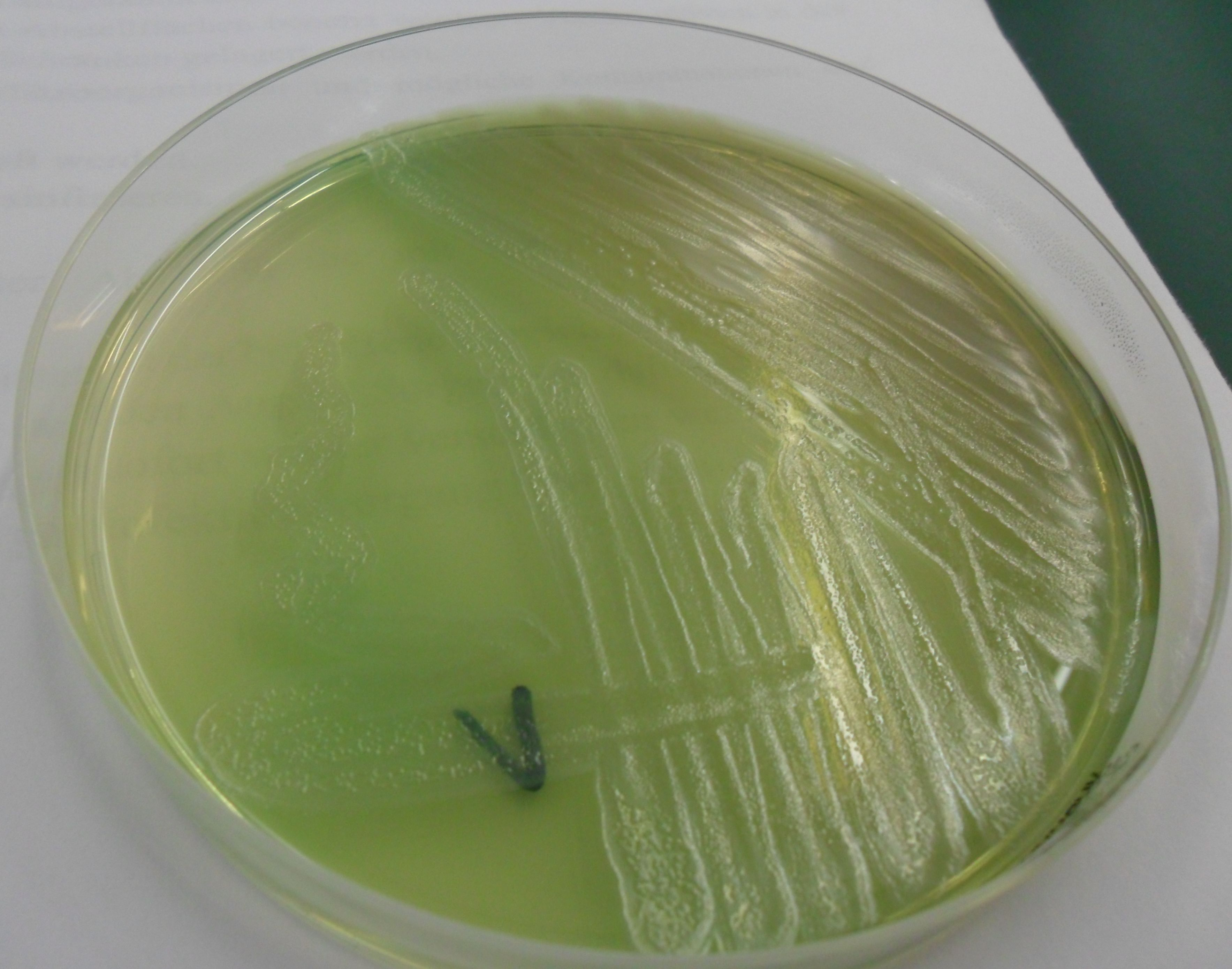 Pseudomonas aeruginosa